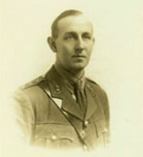 B.O.Corbett , headmaster of Shardlow Hall School, footballer for England etc. Captain Bertie Oswald Corbett (1875-1967), head and shoulders portrait in the uniform of a Captain in the Grenadier Guards. pic enlarged and clipped.